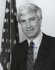 US Rep. Charles Thomas "Tom" McMillen, Democrat of Maryland's 4th district and former professional basketball player